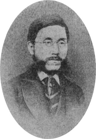 Mr. Shinzō Seki.